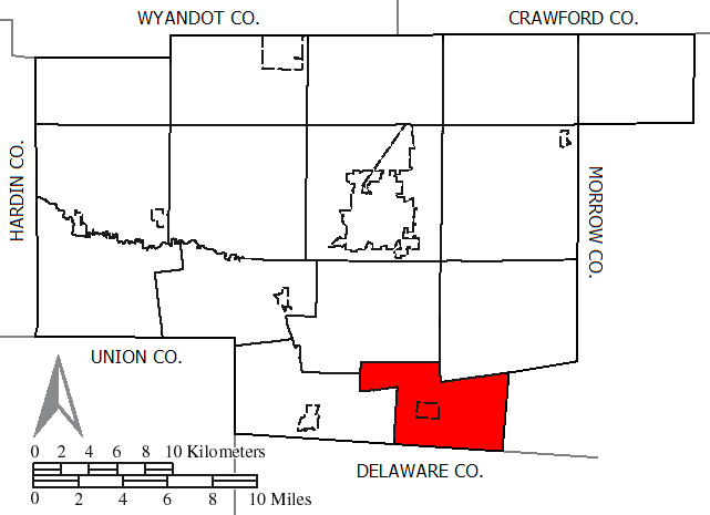 Made by the US Census and modified by myself to highlight the township